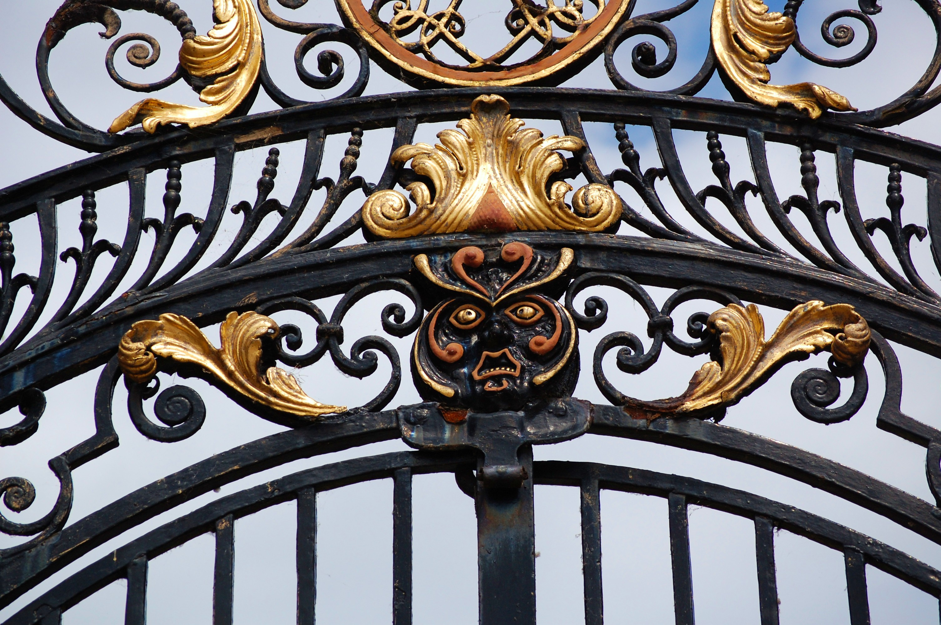 For GWUK. Detail from Robert Bakewell's wrought iron gates outside the old Silk Mill, now Derby Industrial Museum. Happened to notice this visage recently, having missed it on previous occasions.